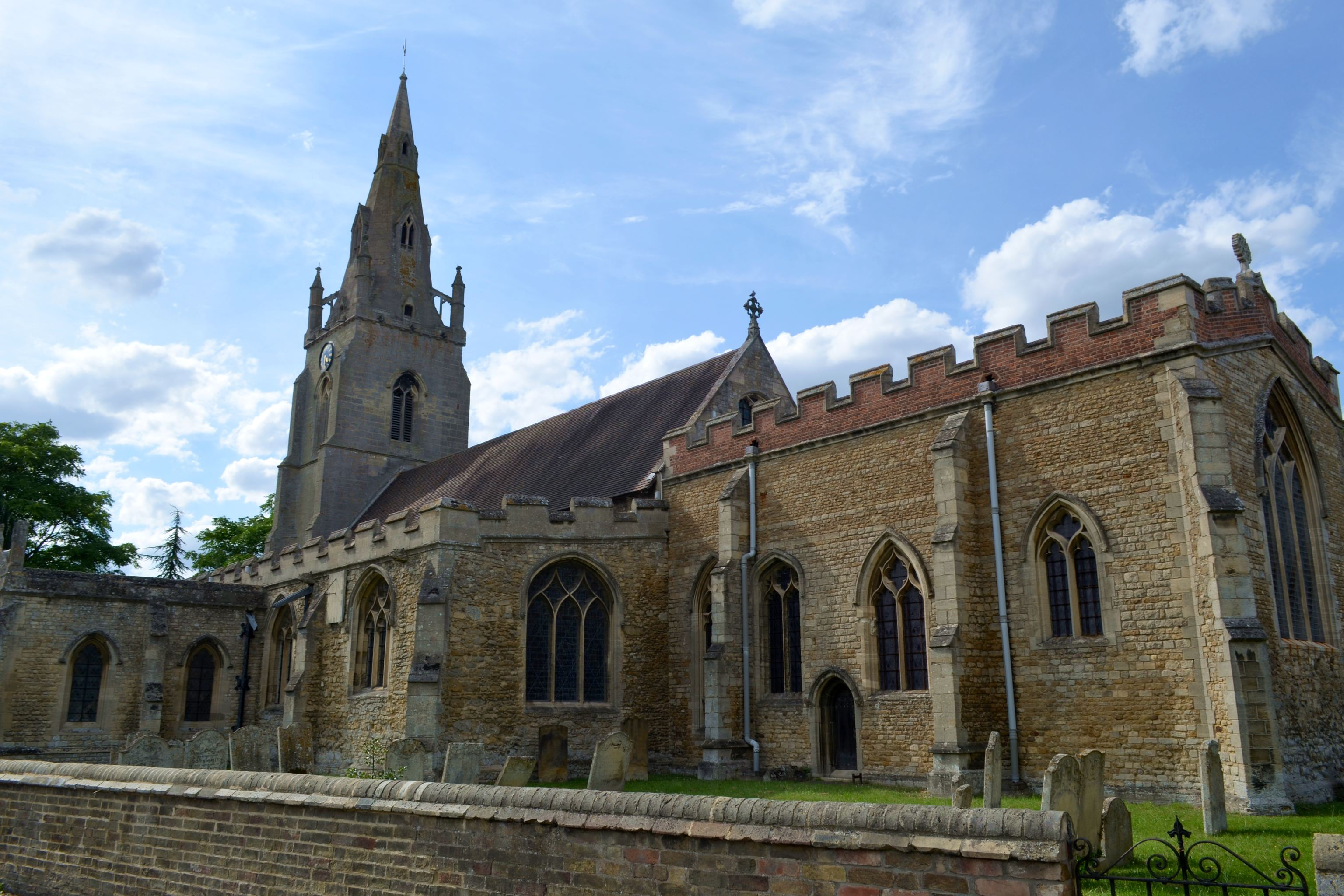 All Saints Church, Willingham, Cambridgeshire, England in July 2014.